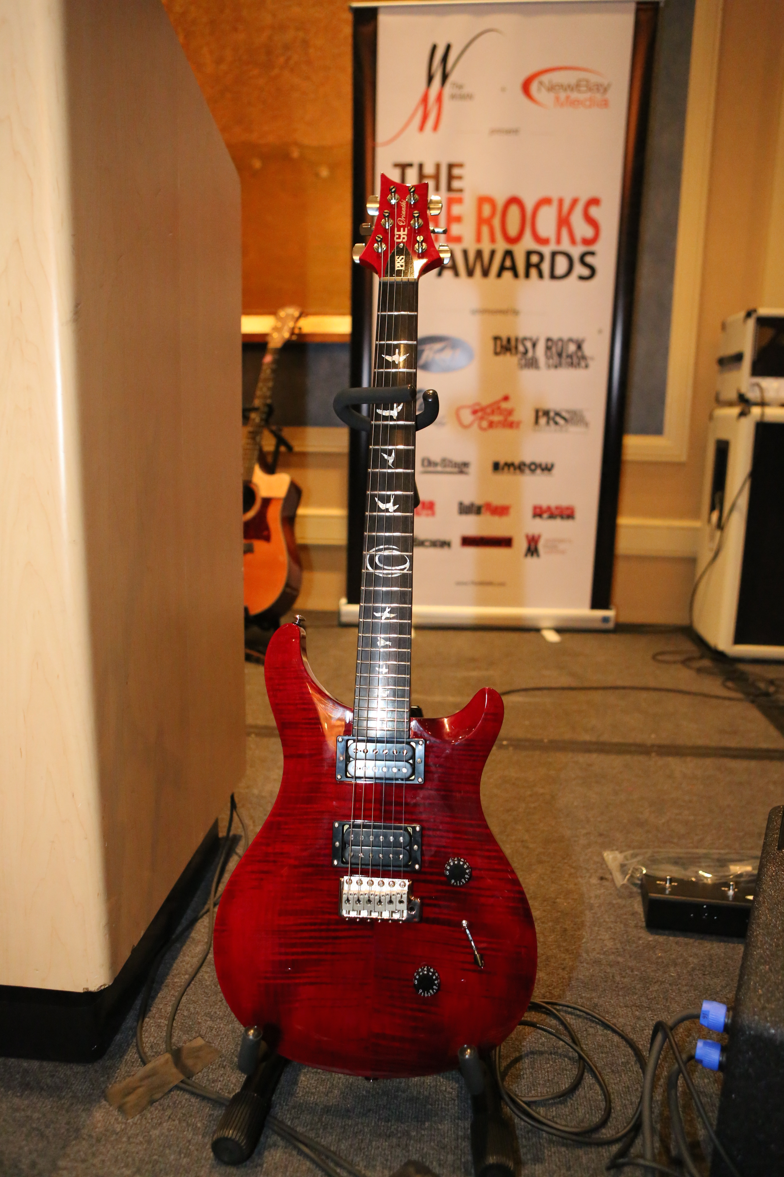 This PRS Orianthi signature guitar was autographed by Orianthi and donated by PRS Guitars. It will be auctioned at a later date with the proceeds going to provide scholarships for the 2013 Women's Music Summit.